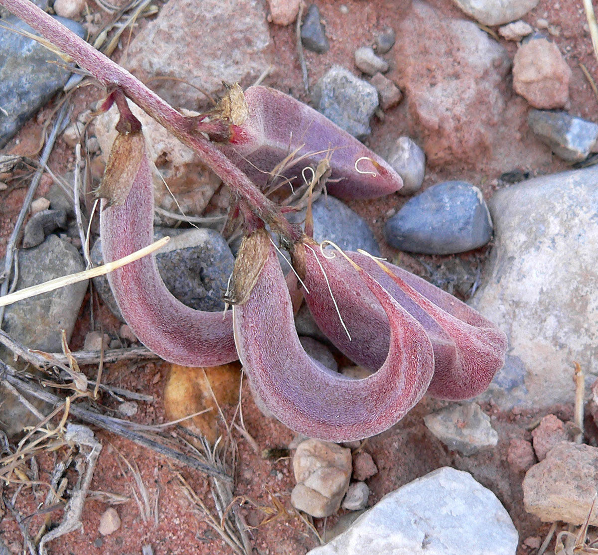 Astragalus amphioxys var. amphioxys in Calico Basin, Spring Mountains, southern Nevada